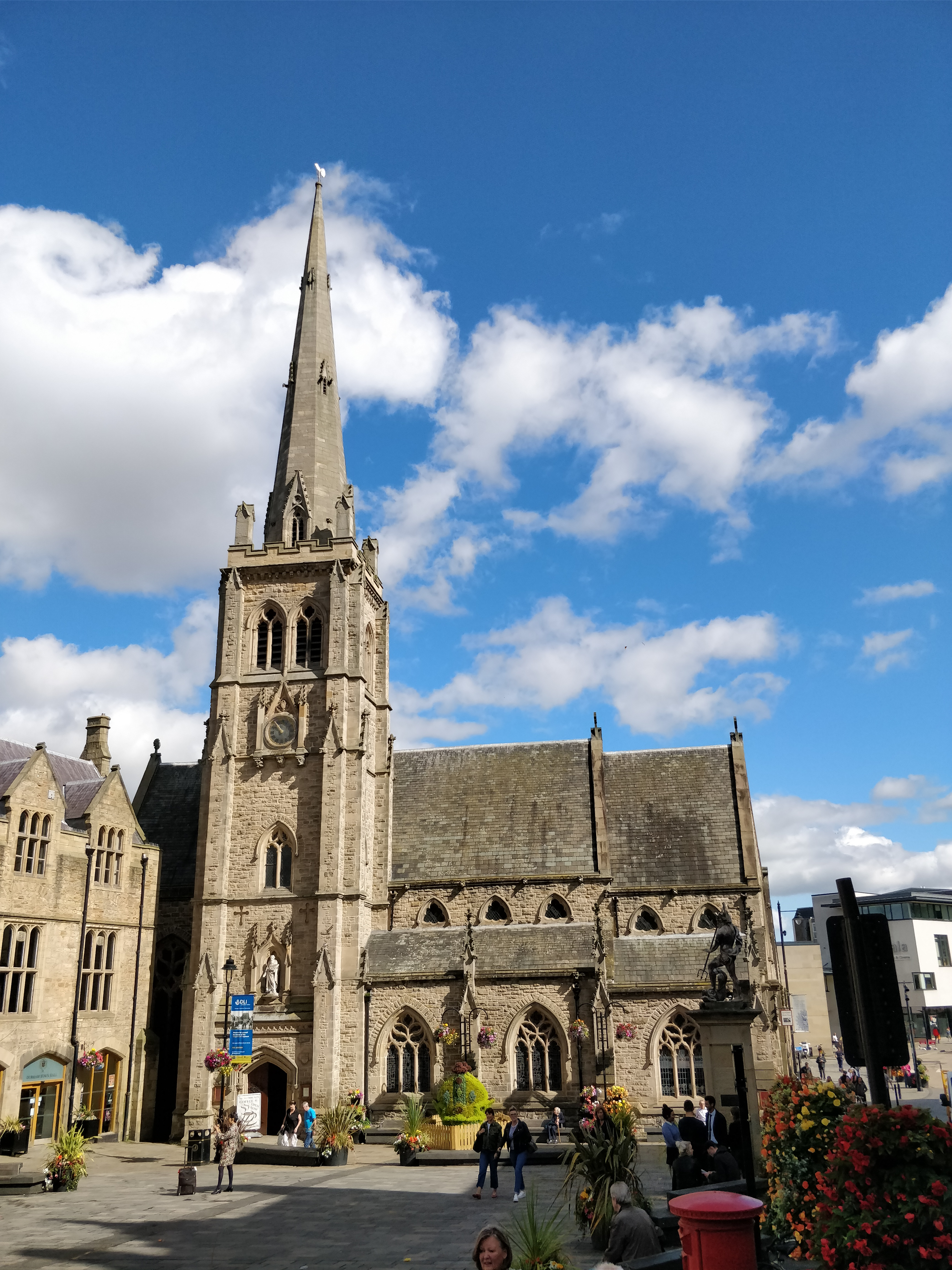 St Nicholas' Church, Durham from the other side of the marketplace, in sunshine